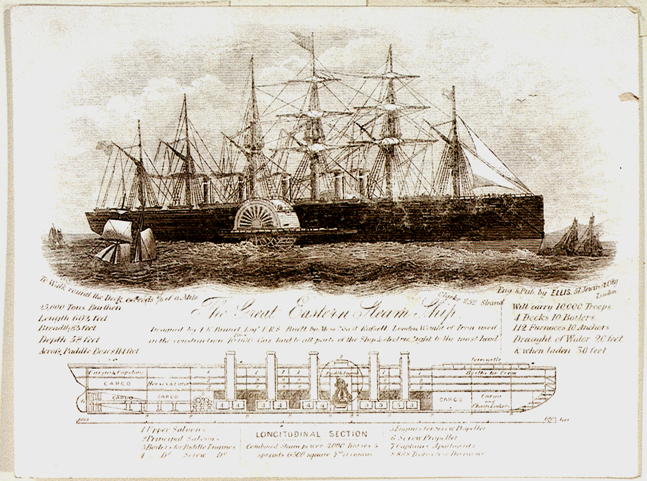 The Great Eastern Steam Ship Designed by I.K. Brunel Esqr. F.R.S. Built by Messrs Scott Russell London Weight of Iron used in the construction 10000 tons Gas laid to all parts of the ship & electric light to the mast headThe 'Great Eastern' was built at John Scott Russell's yard in Millwall. The sheer size of the ship meant that her components would be extraordinarily large. The screw engines, for example, weighed over 500 tons. Gas pipes were laid to all parts of the ship and electricity lit the entire vessel.